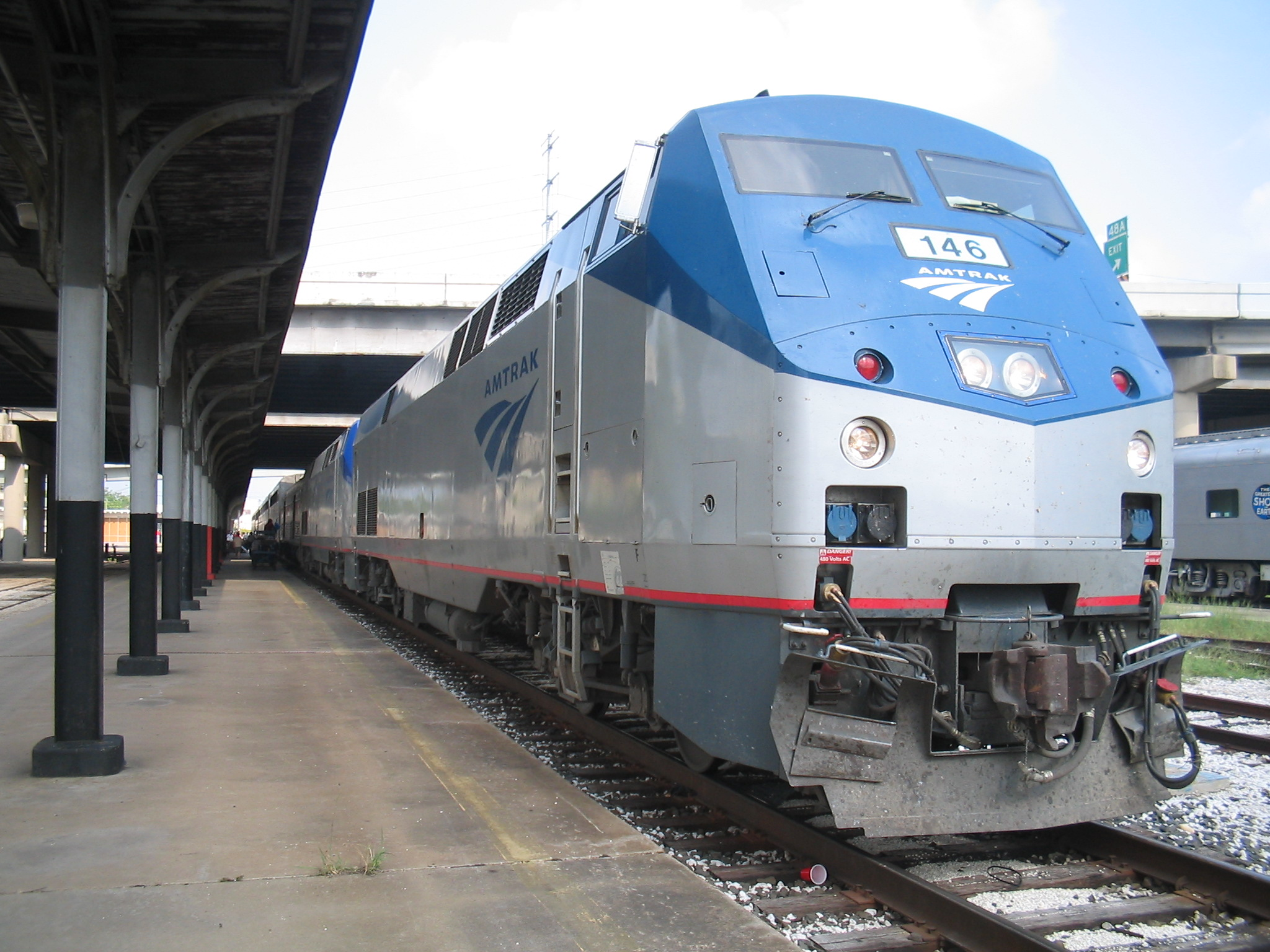 Amtrak's Sunset Limited #2 train heading east from Los Angeles to Orlando, stopped at the train station in Houston. It was about four hours late.